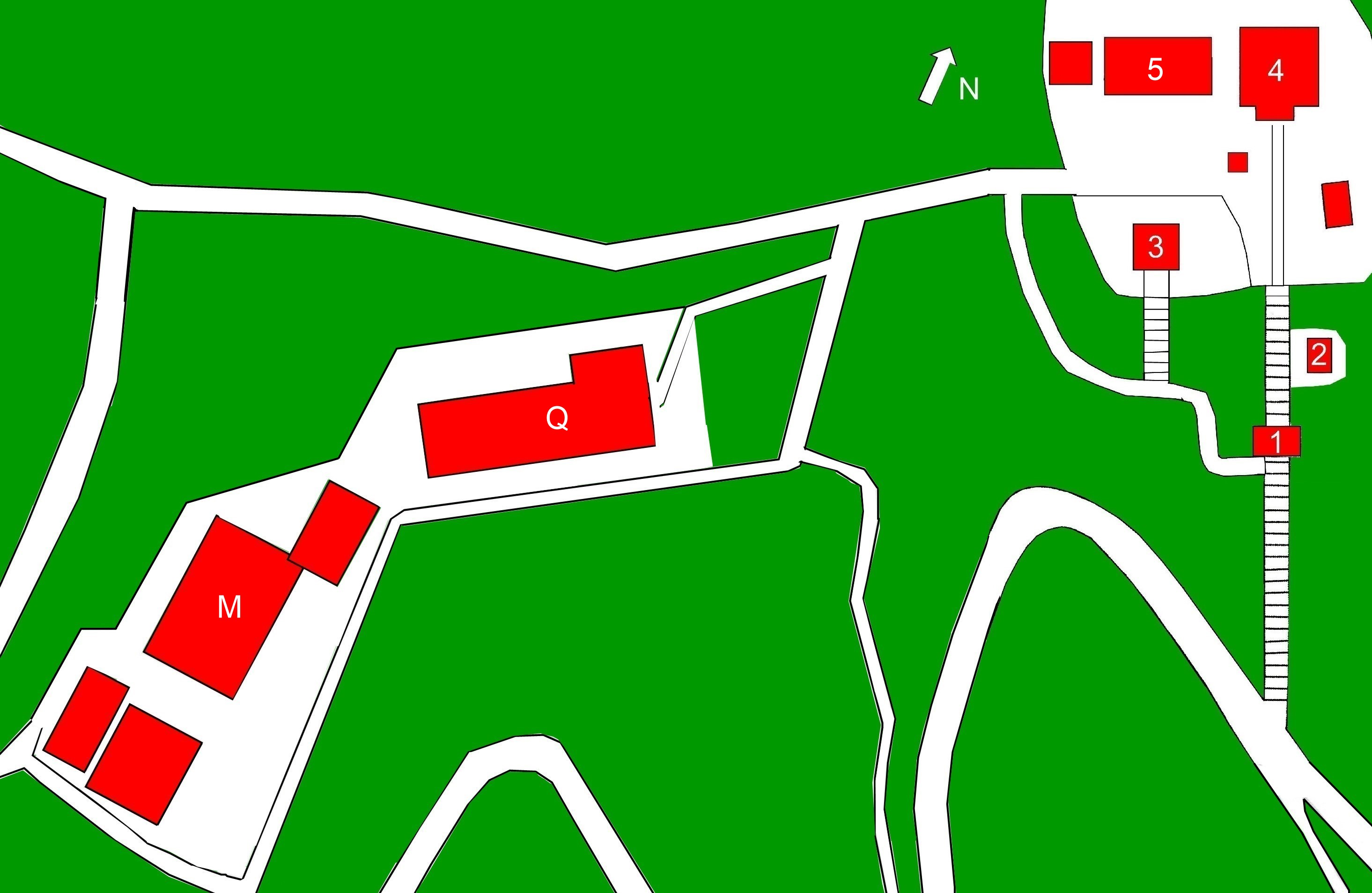 Layout of Kongôchô-ji (Muroto) temple, Japan